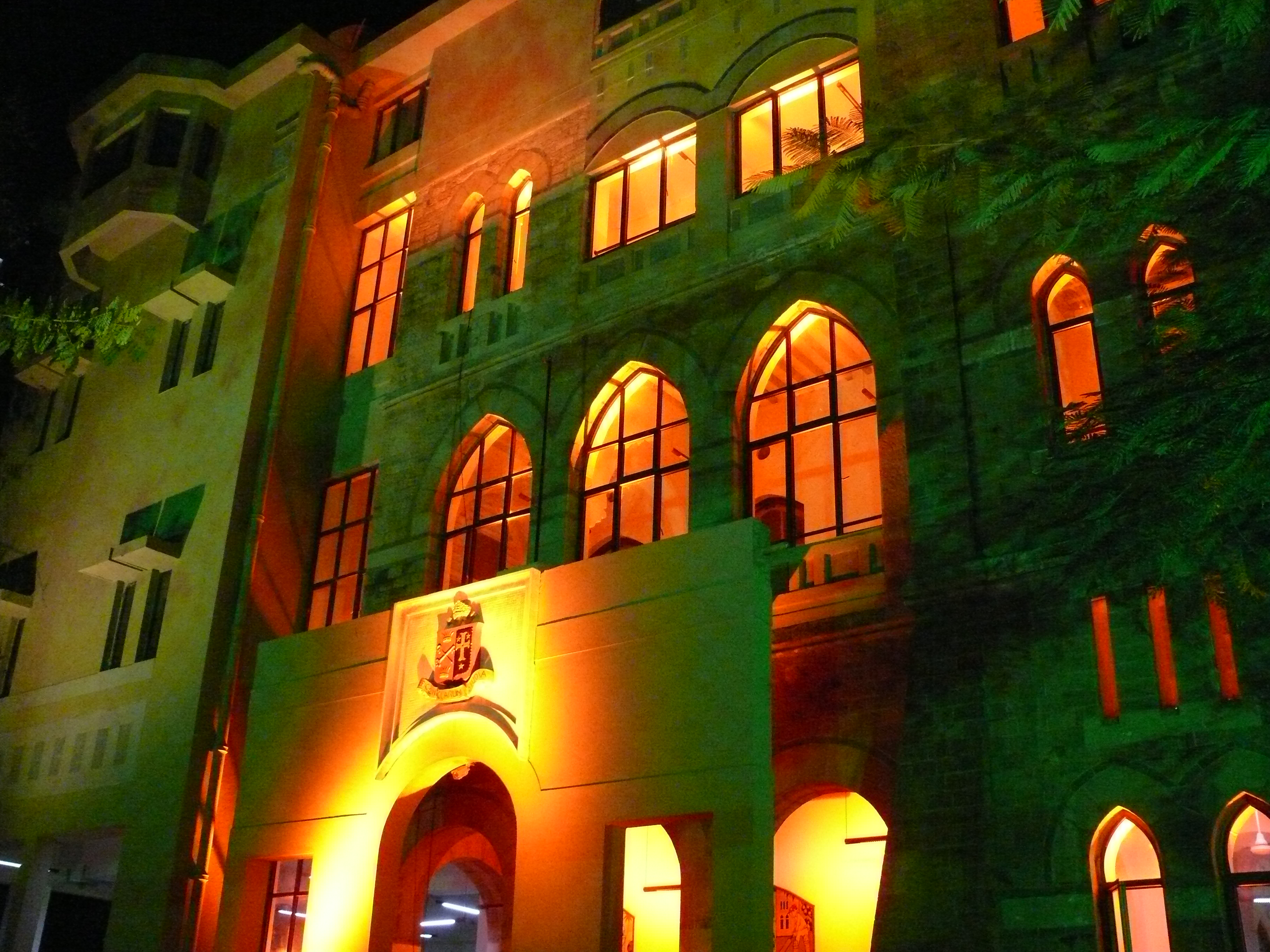 Cathedral and John Connon, Mumbai. Image taken during 150th foundation day celebrations.